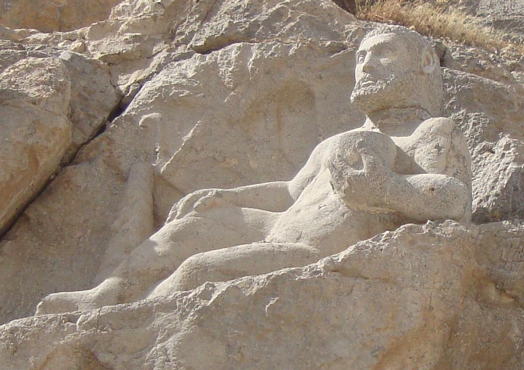 Statue of Herakles, Bisotun, Iran